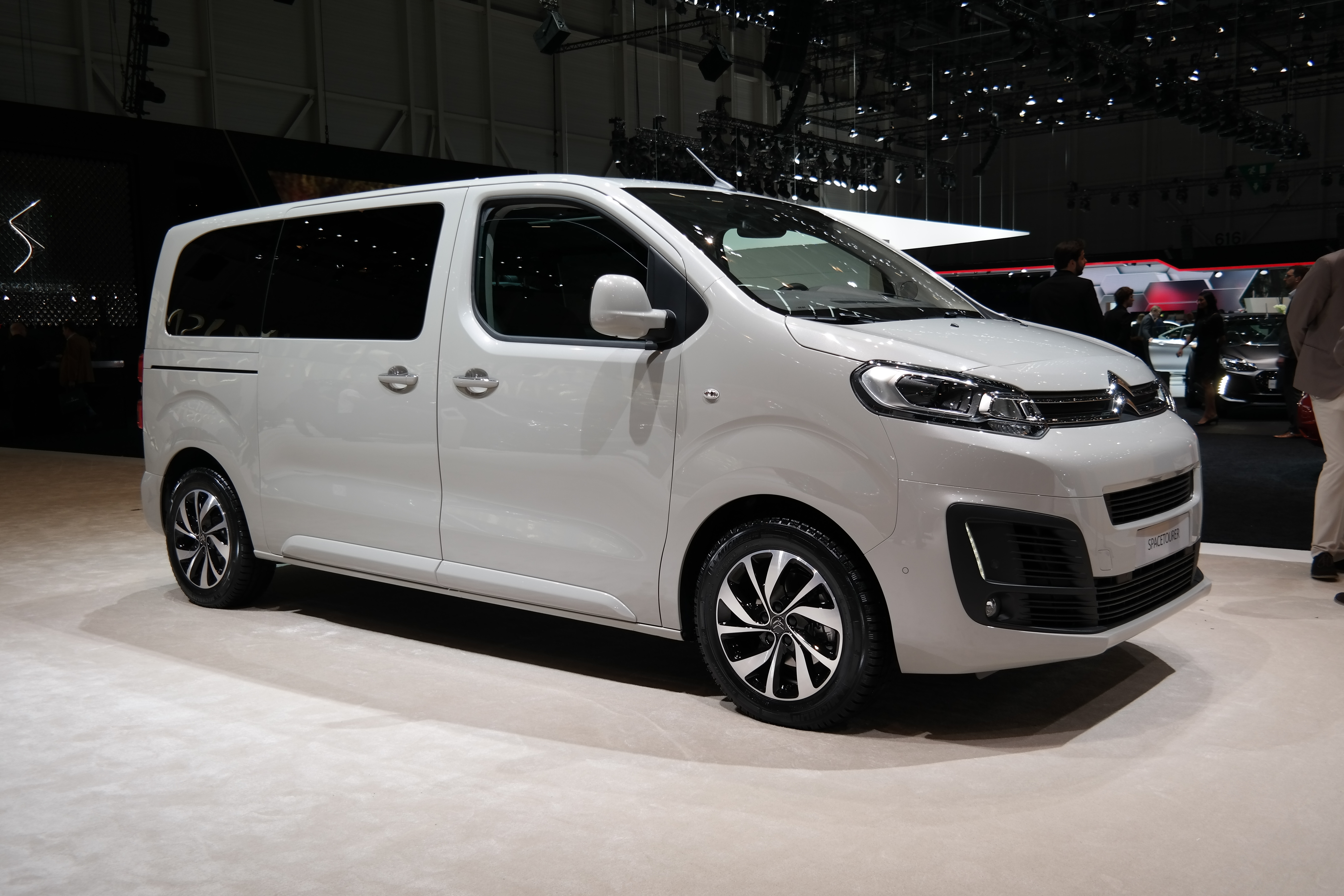 Geneva Motor Show 2016 (photo taken on the first press day)